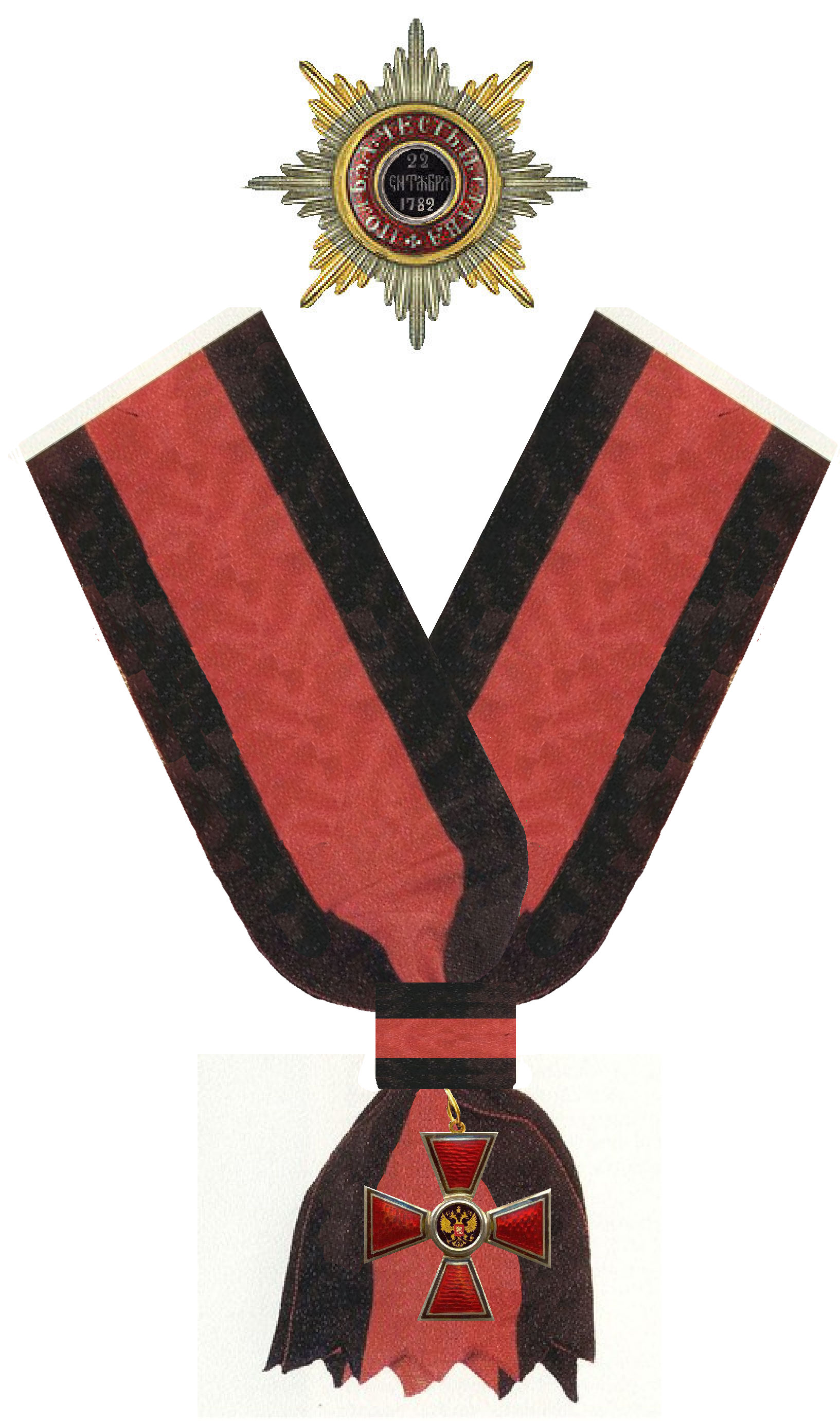 Order of St. Vladimir for non-christians